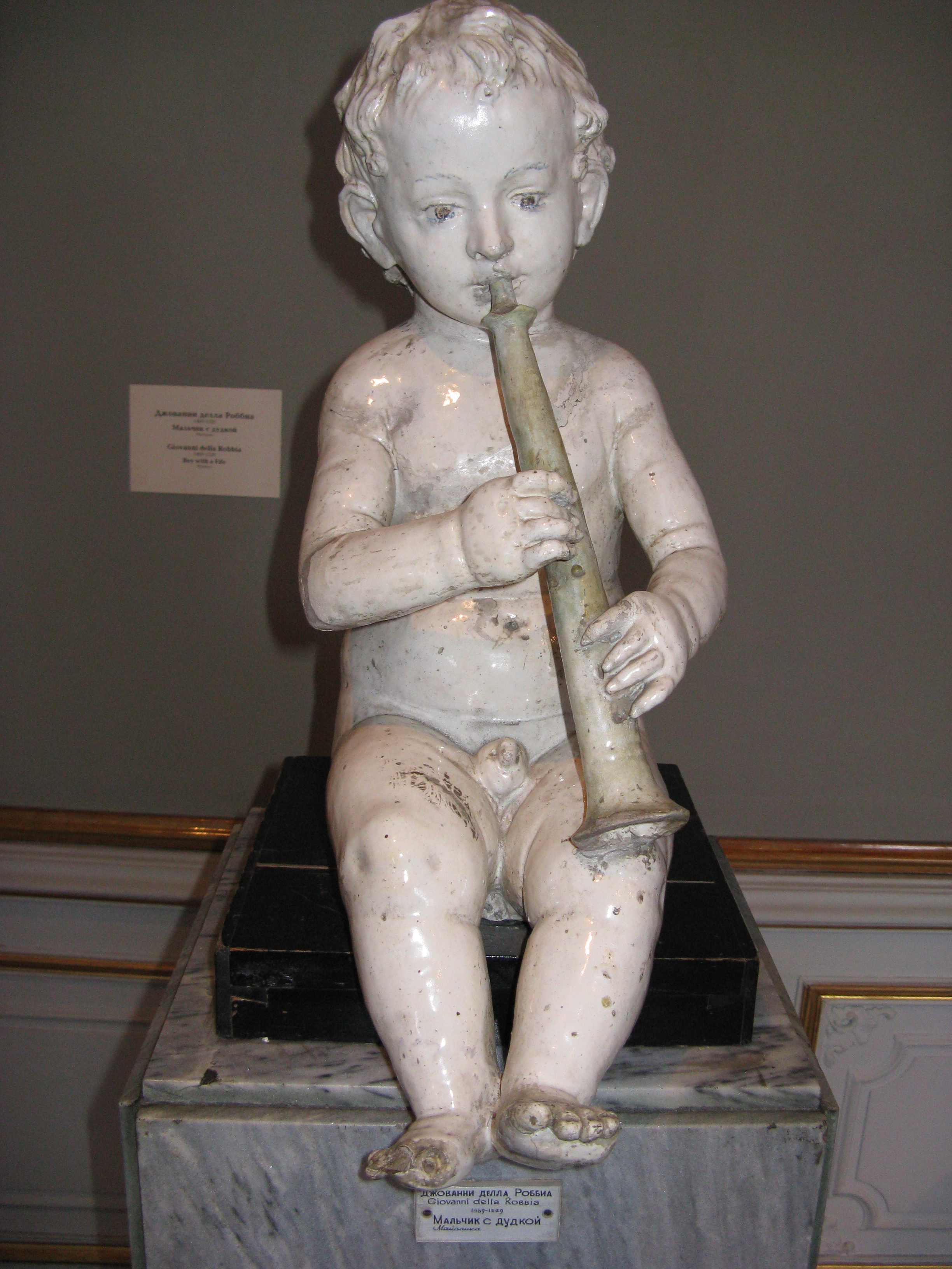 Statue by Giovanni della Robbia at the Hermitage.